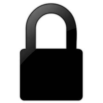 A black lock.